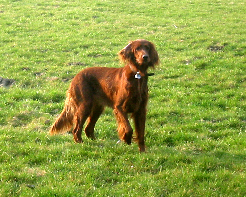 Cora von Wildforst